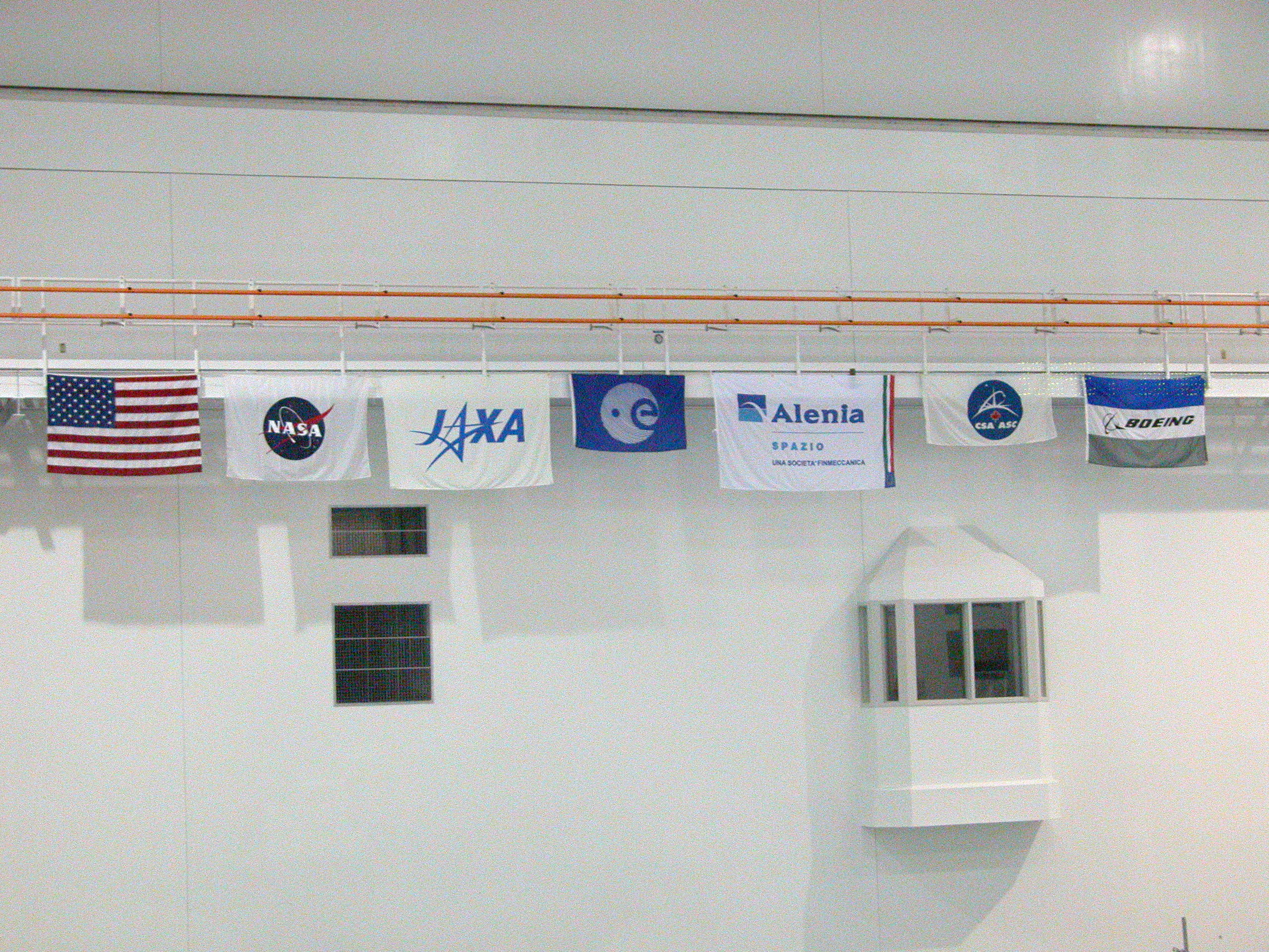 The Alenia Spazio flag stands out among those exhibited at the John F. Kennedy Space Center in Cape Canaveral, in the building where the modules for the International Space Station are built.